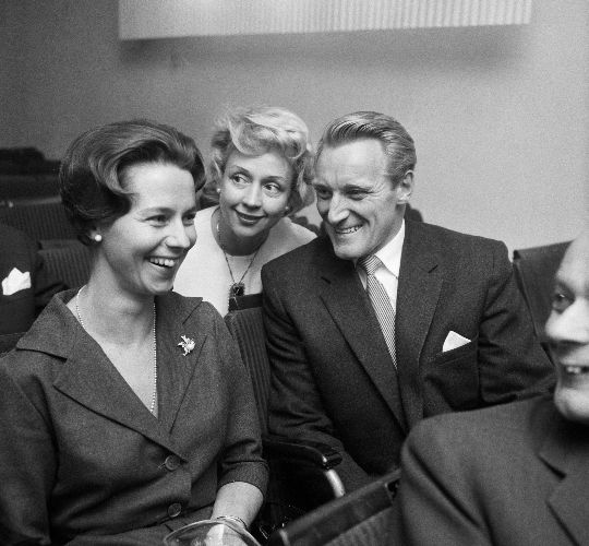 Photograph of actors of Lilla Teatern in Helsinki: Jutta Zilliacus, Eva Perander, Åke Lindman and Kurt Ingvall.